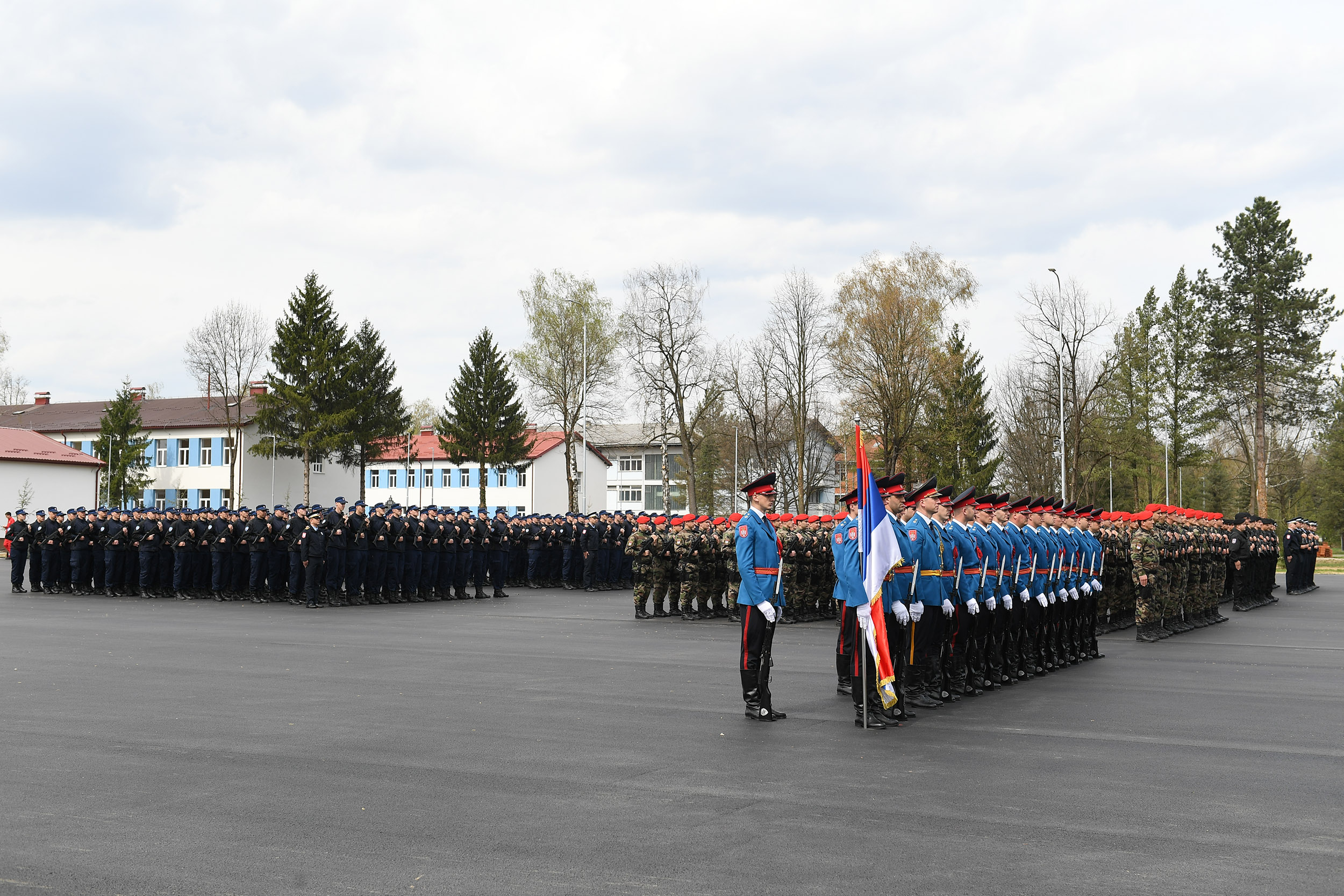 Members of the Ministry of Interior of Republika Srpska during celebration of the Police Day 2019 in Training Center of the Ministry of Interior in Zalužani. Formations of from left to right are: Cadets of Police Academy in Banja Luka, Honour Unit, Special Anti-Terrorist Unit, Support Unit and Special police forces.